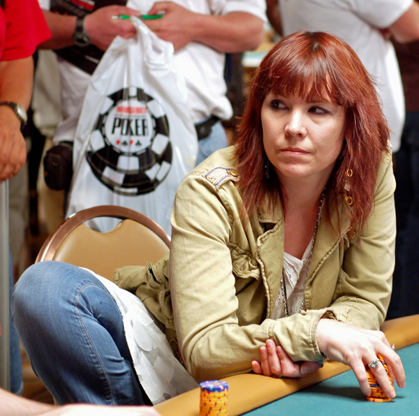 Annie Duke at the 2007 World Series of Poker.